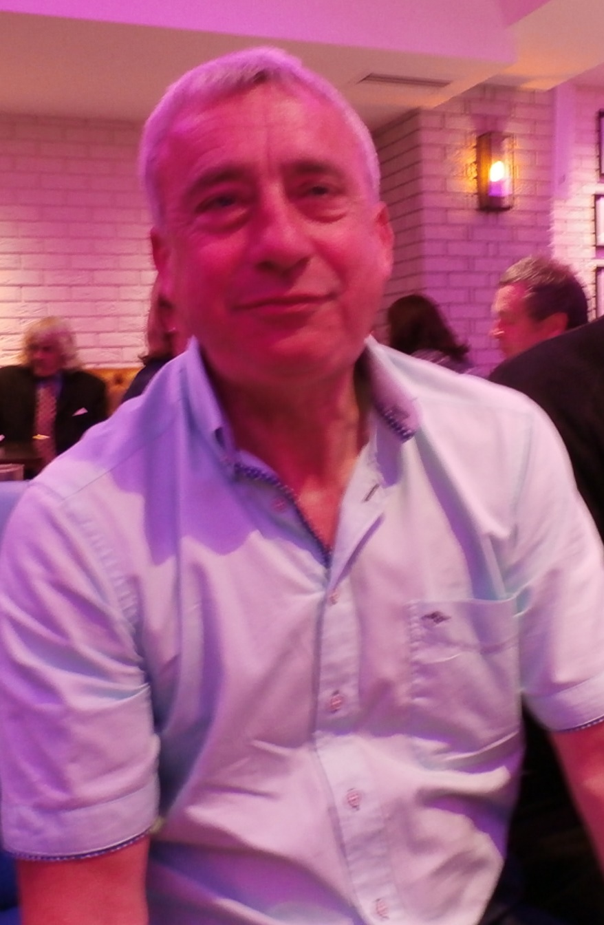 In the Sea Lodge Hotel to honour Mick O'Dwyer